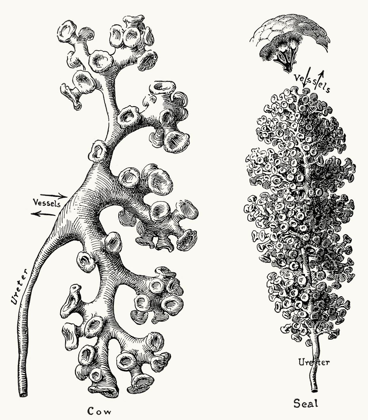 Diagrams of casts of renal pelves and calices in the cow and seal (after Hyrtl). From Diseases of the kidneys, ureters and bladder, by Howard Atwood Kelly, New York, London, 1922.